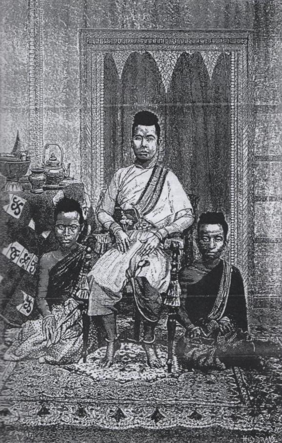 The Imperial Portrait of Queen Ang Mey